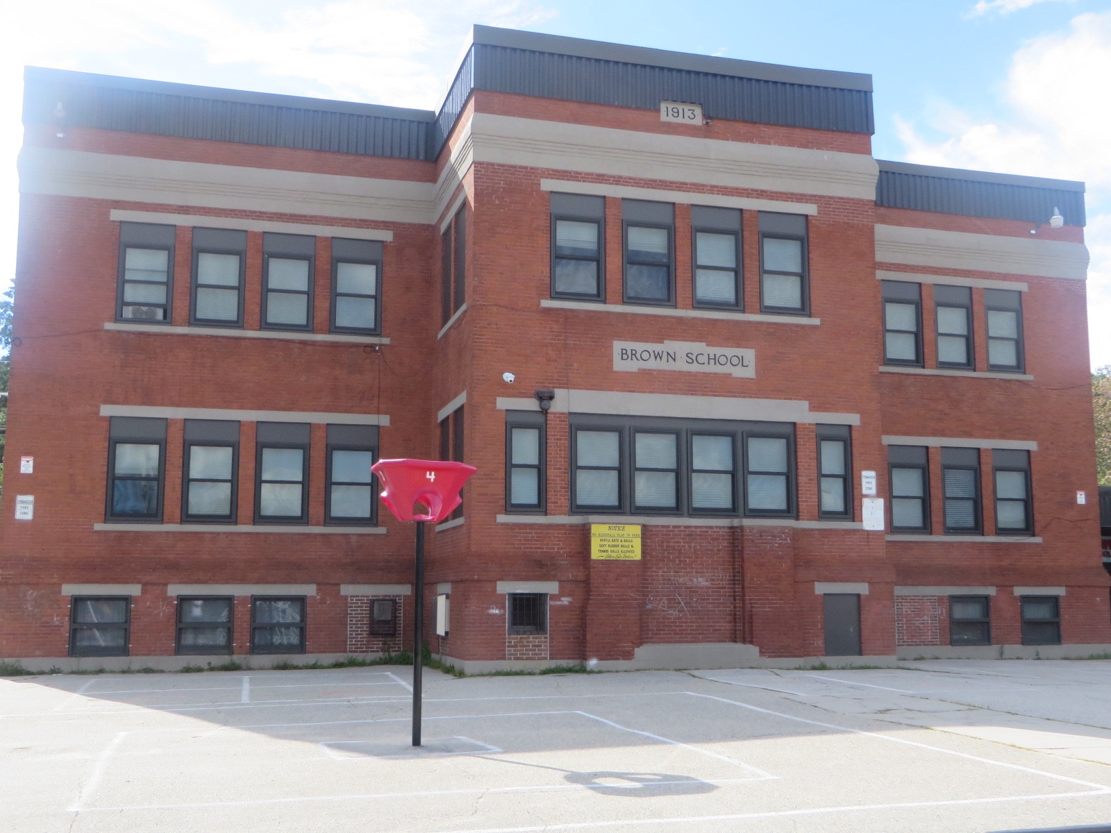 Brown Elementary School - August 2015